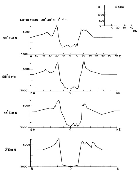 Autolycus crater cross section